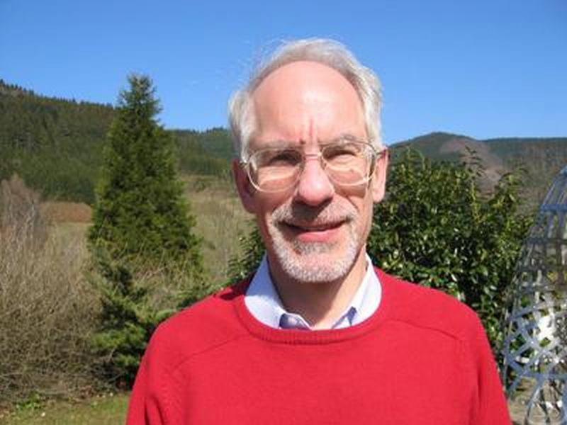 Eric Friedlander, Oberwolfach 2004